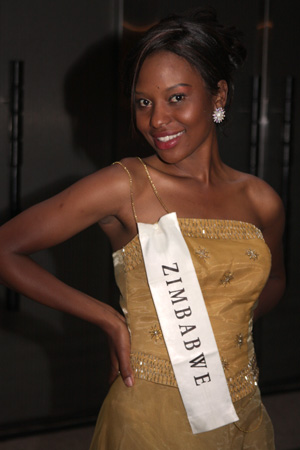 Miss Zimbabwe 2008 Cynthia Muvirimi in Miss World 08